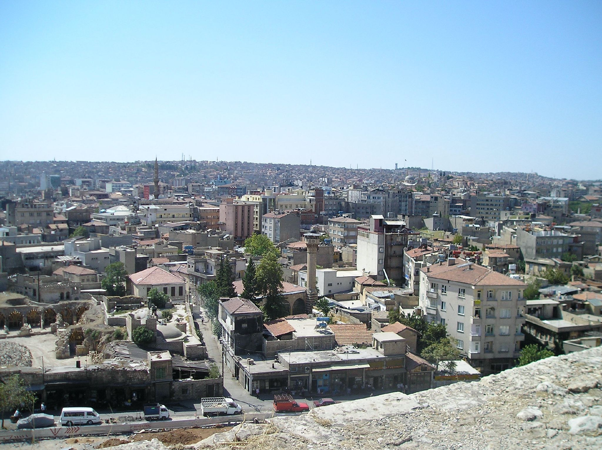 A view from the citadel showing the old twon